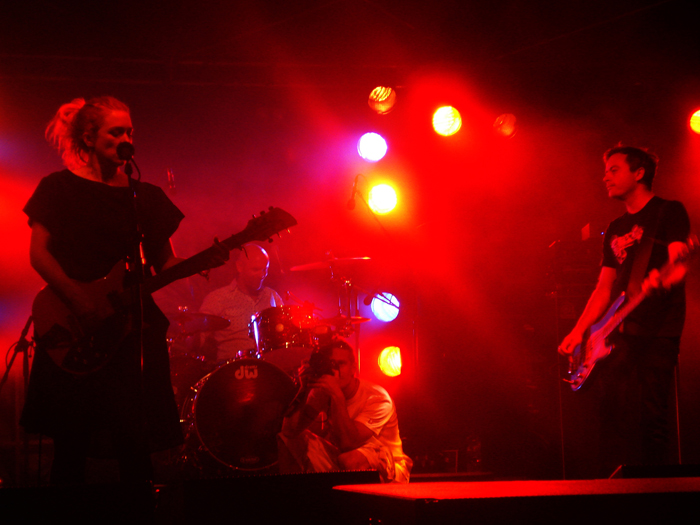 Fur Patrol @ Frank Kitts Park, Wellington - Starry Nights